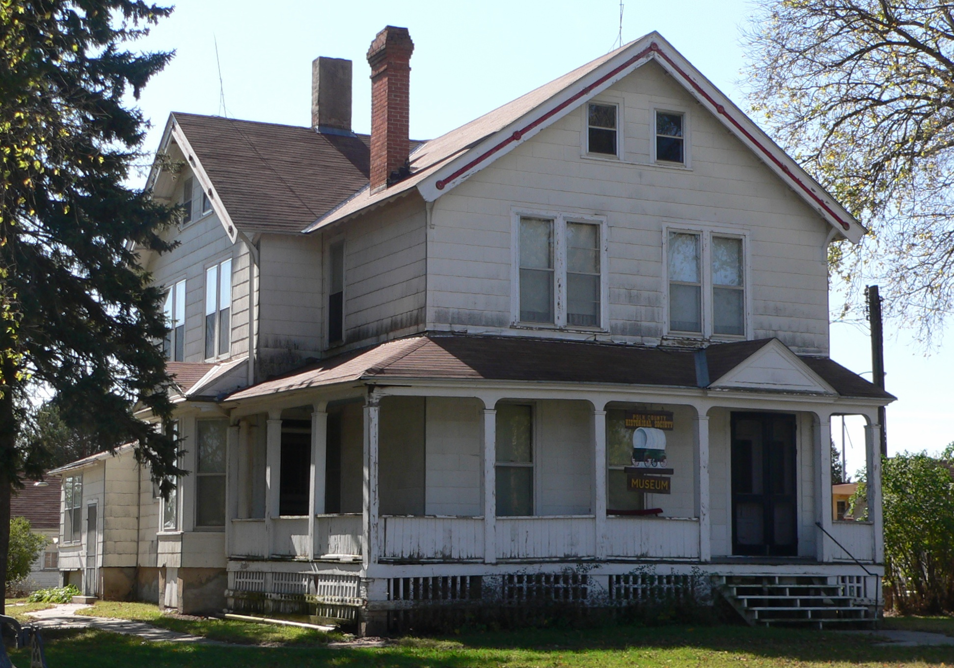 Governor John Hopwood Mickey house, on grounds of Polk County Historical Society Museum in Osceola, Nebraska; seen from the northeast.